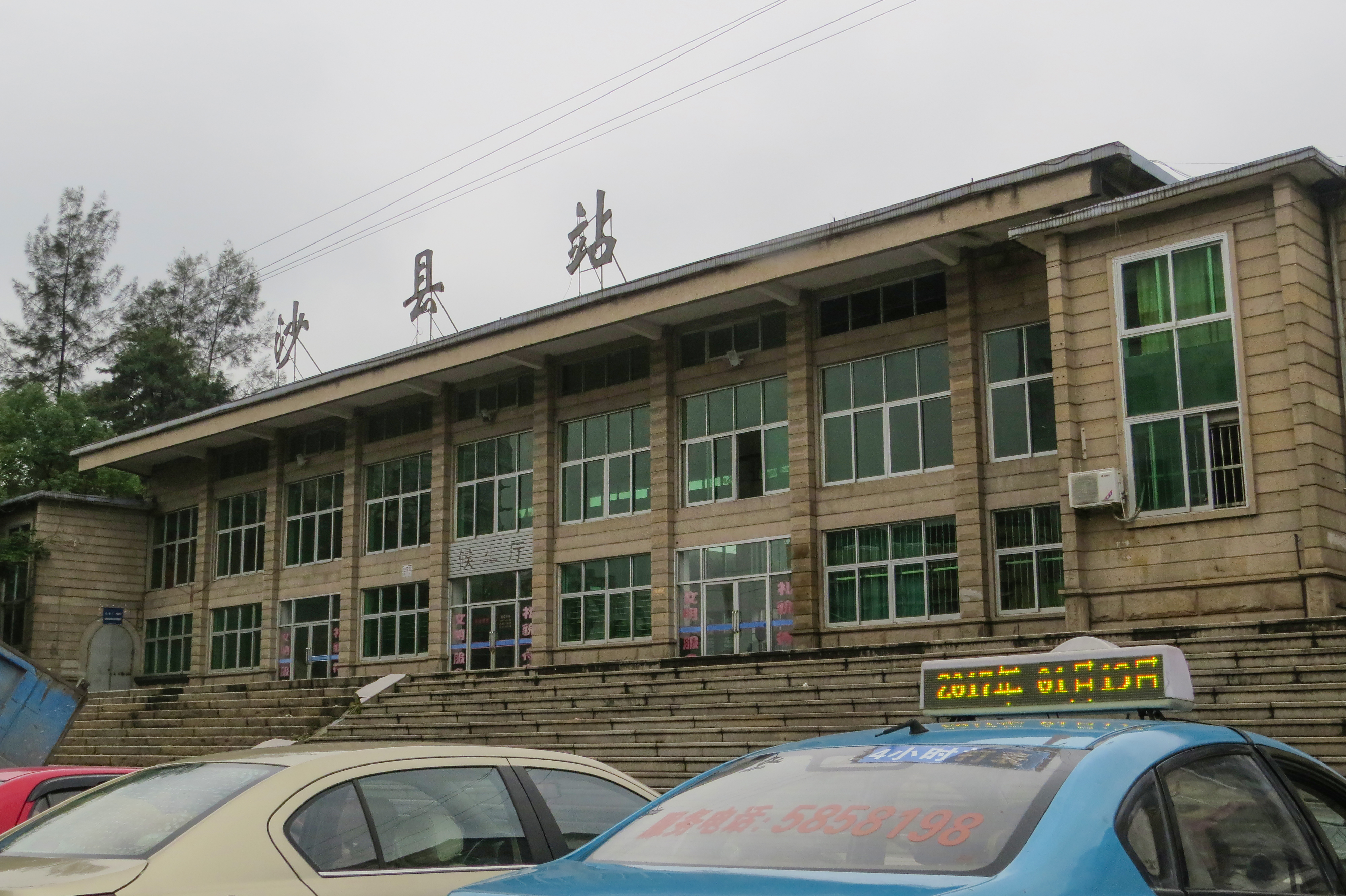 Passenger service suspended after the opening of Sanmingbei Railway Station.